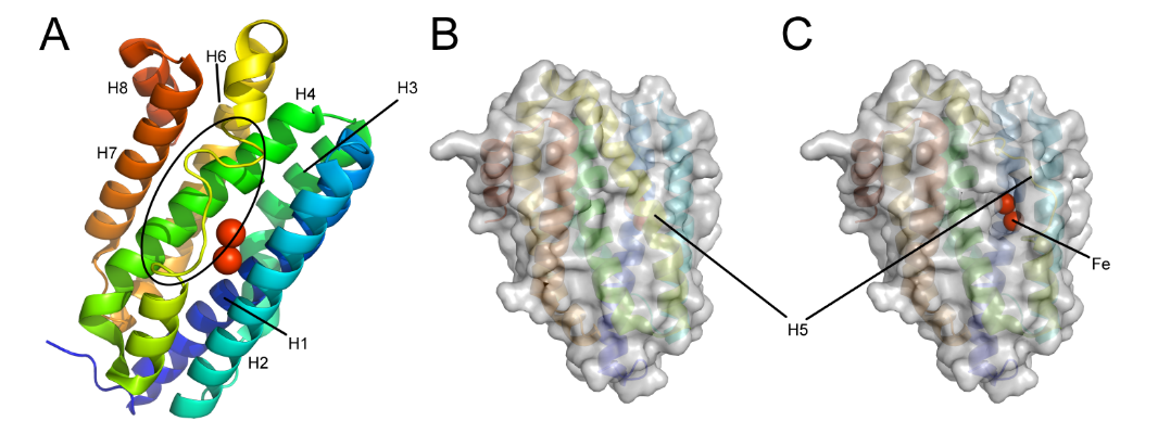 Putative apoenzyme conformational change in P marinus cADO, PDB 4PGI